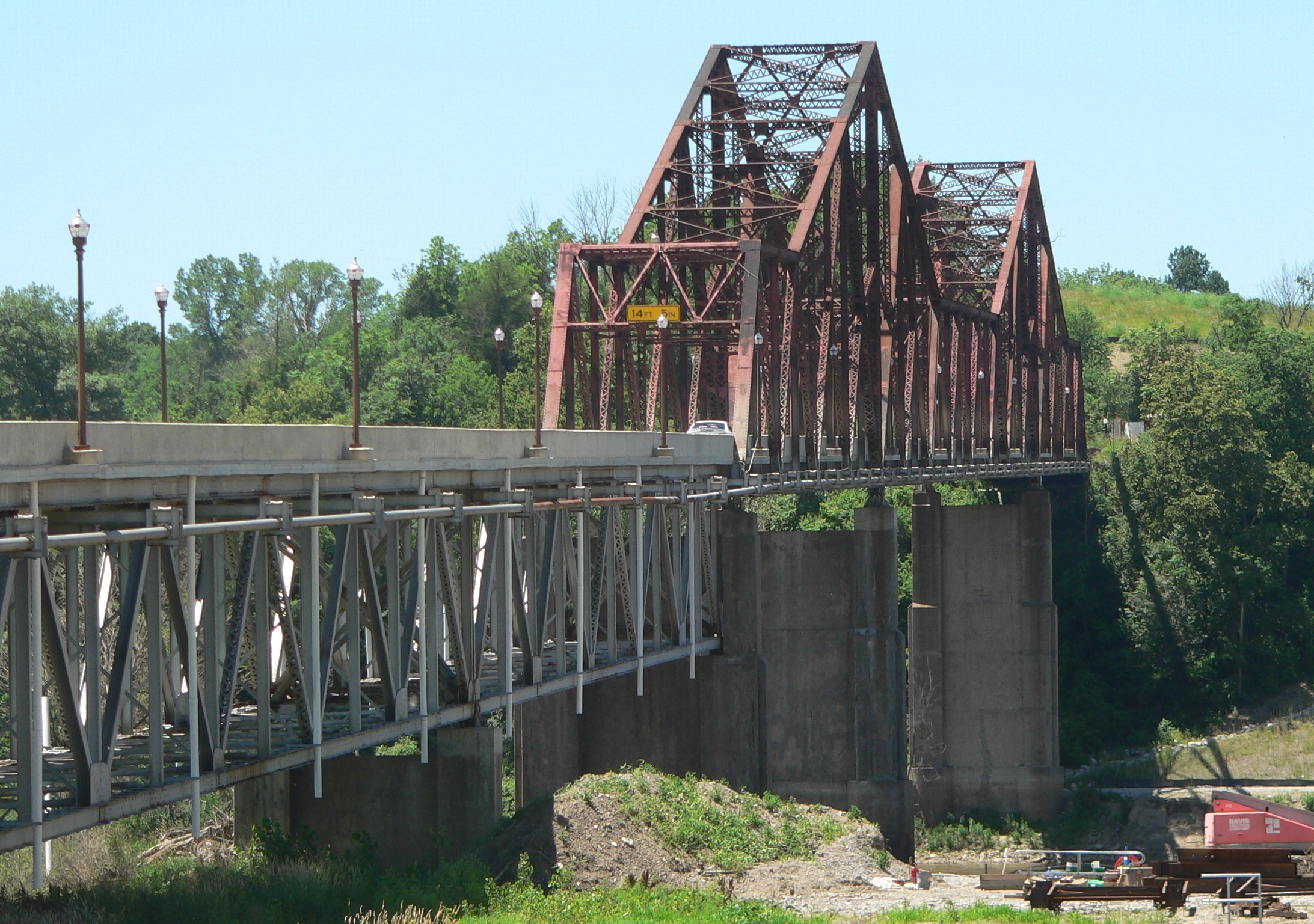 Bridge carrying U.S. Highway 34 across Missouri River east of Plattsmouth, Nebraska; seen from the northeast.